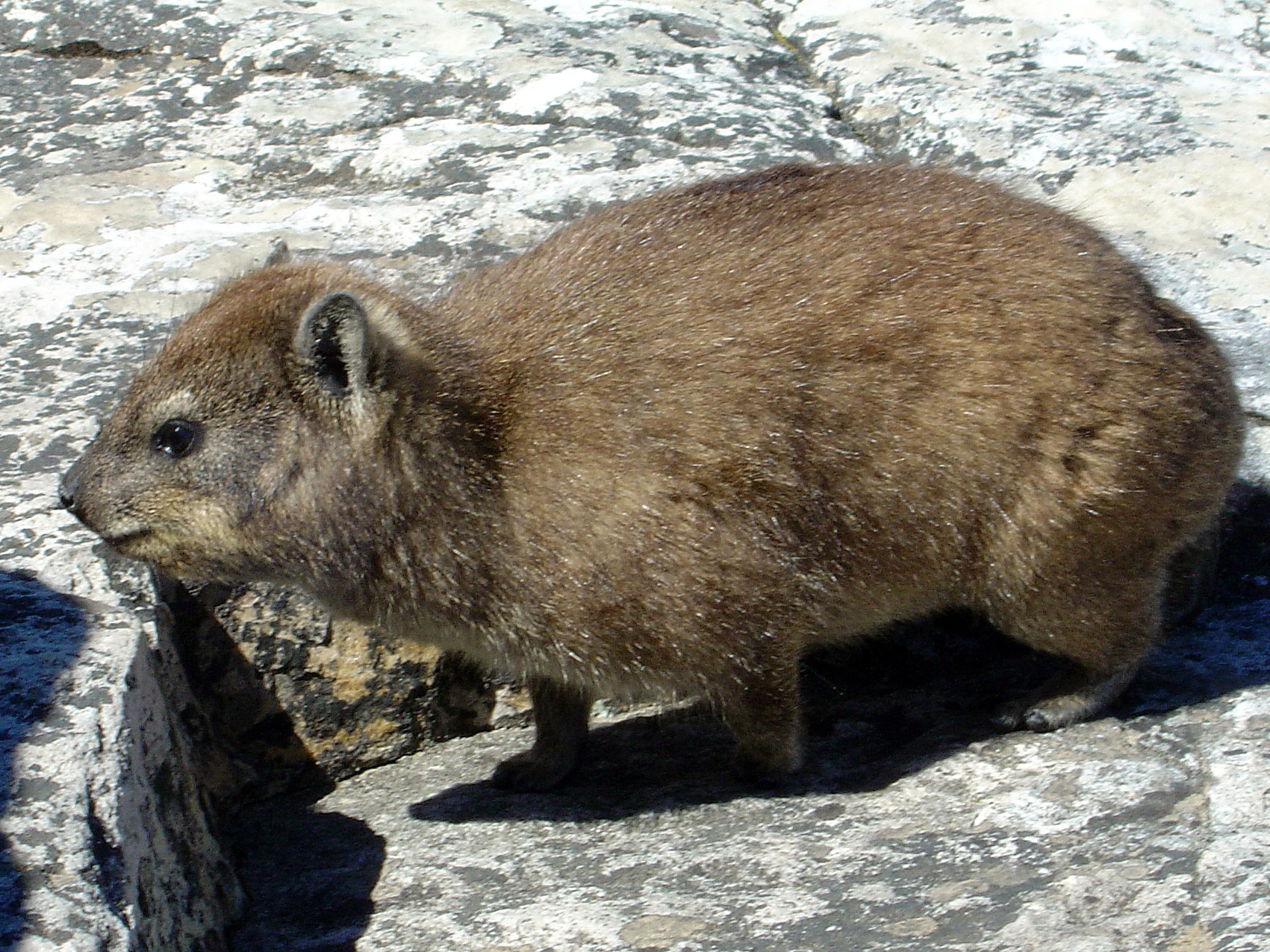 Dassie (Cape Hyrax) photgraphed on Table Mountain, Cape Town. The photo was taken on the rocks near the upper cable car station.